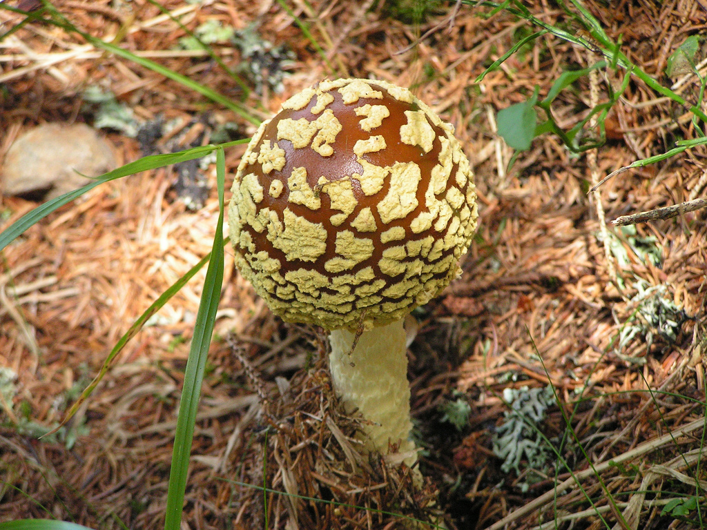 Amanita regalis near Šumava National Park near Vimperk, Czech Republic